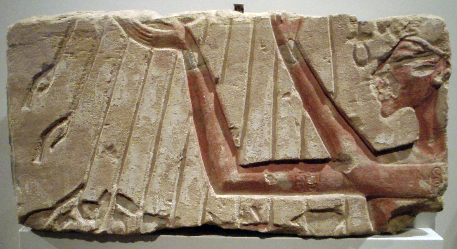 Relief Fragment of Akhenaten with the Sun Disk of the Aten. New Kingdom, 19th dynasty, circa 1350 B.C. Image taken at the Altes Museum, Berlin.